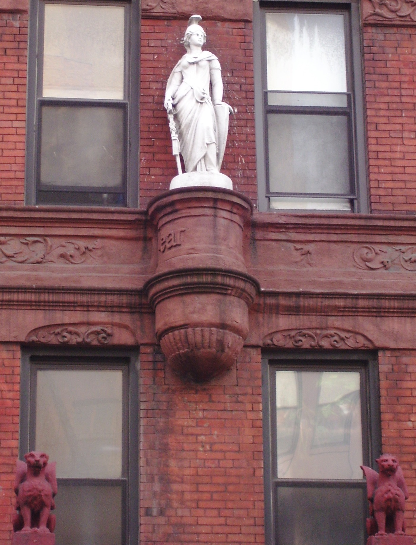 Decoration on the building at 200 West 14th Street on the corner of Seventh Avenue in Manhattan, New York.